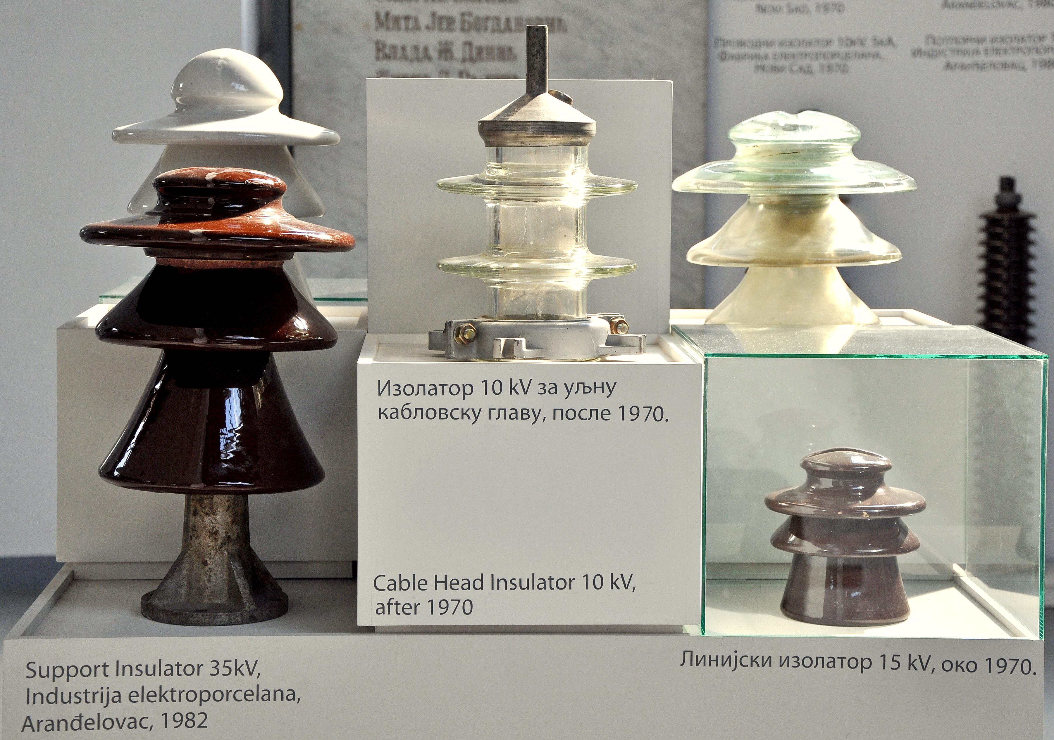 Insulators in Museum of Science and Technology Belgrade.